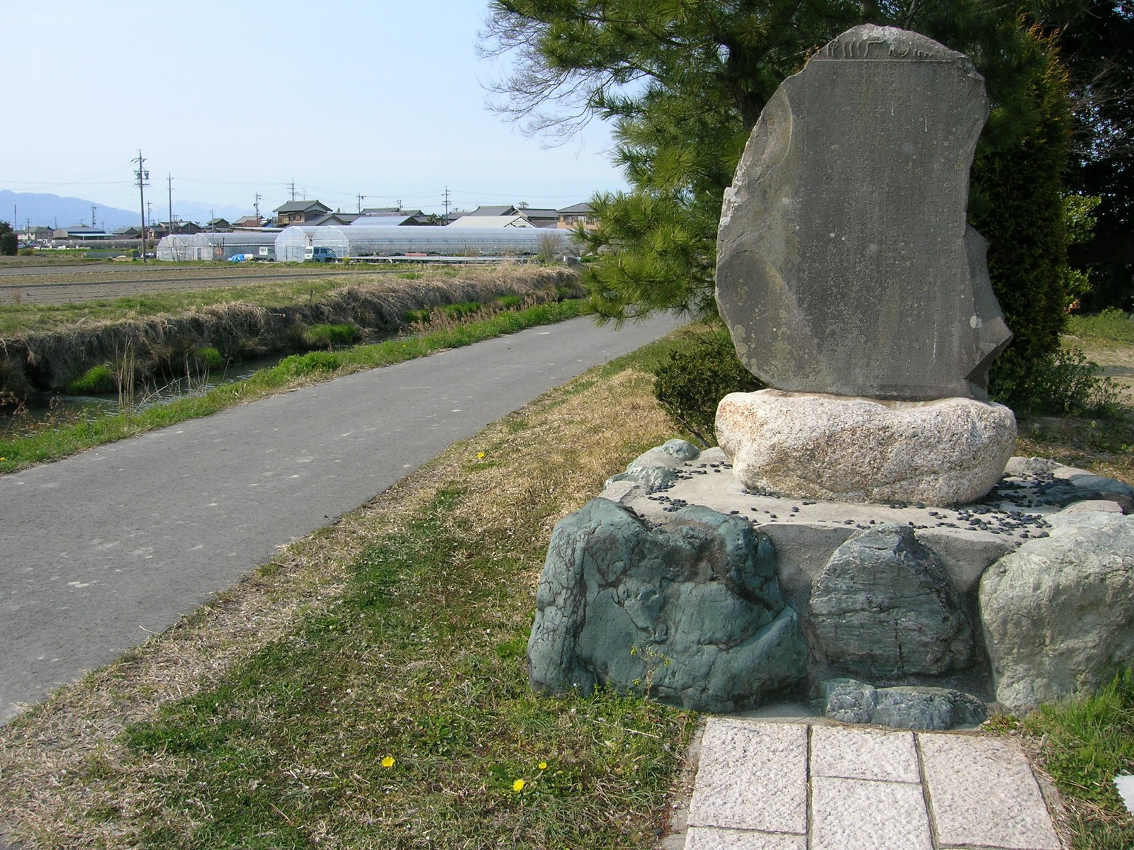 Udo River and Zousen-Udogawa-hi. Loc: Aisai city, Aichi Prefecture, Japan. 鵜戸川・増穿鵜戸川碑 撮影場所 愛知県愛西市新右エ門新田町郷前・津島社